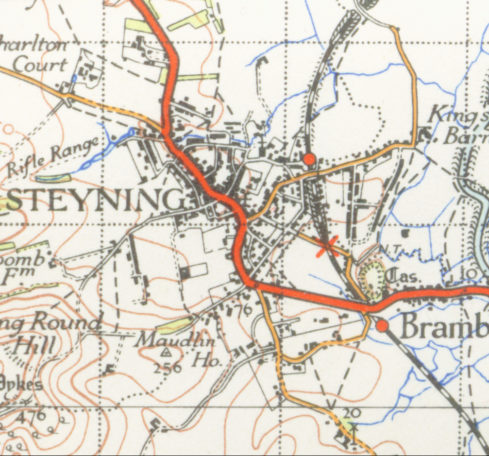 Map of Steyning from 1946 scale 1 inch to the mile scanned at 600DPI